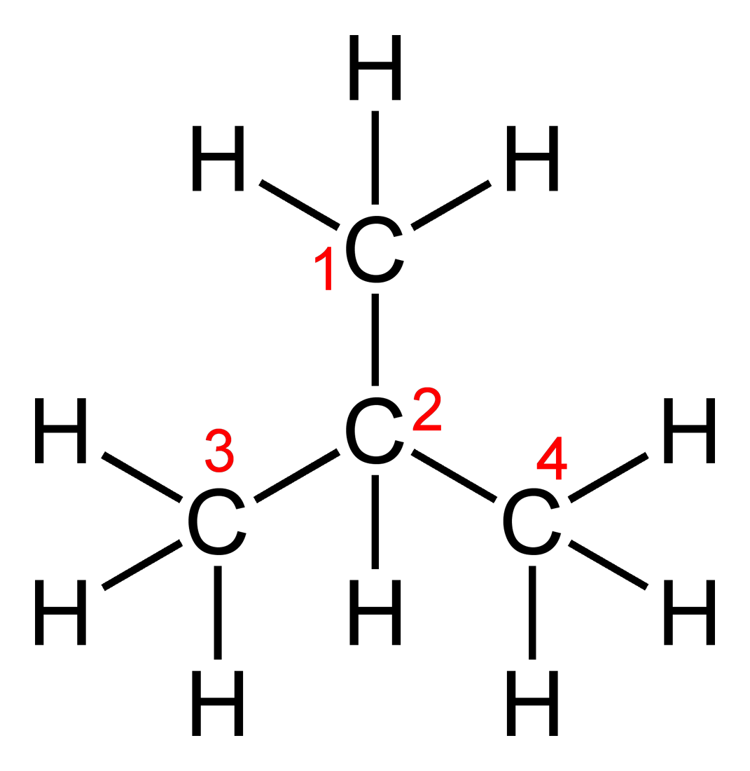 Numbered structural formula of the isobutane molecule, C4H10.